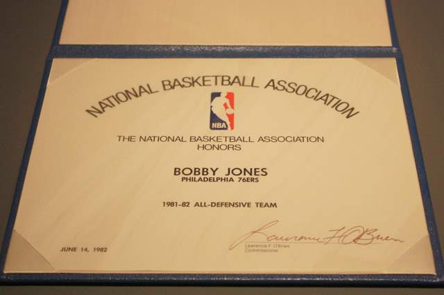 1981–82 NBA All-Defensive Team certificate presented to Bobby Jones. Photo taken at the North Carolina Sports Hall of Fame inside the North Carolina Museum of History.